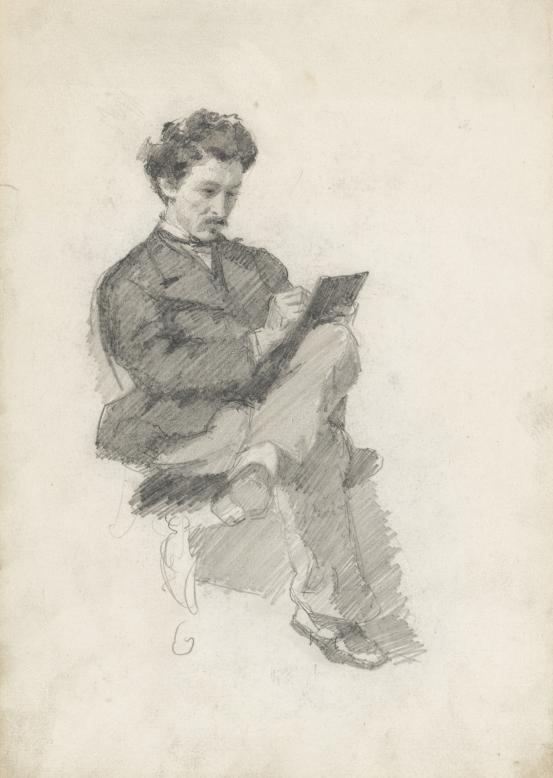 Charles Keene Sketching